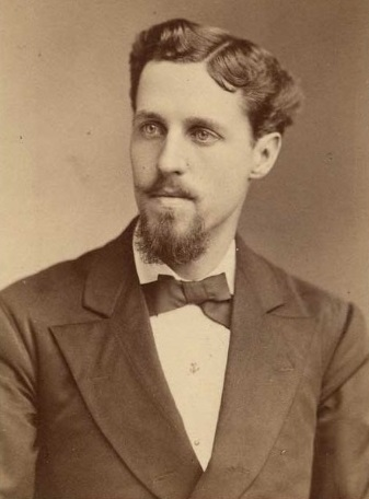 Laird H. Barber (Pennsylvania Congressman)